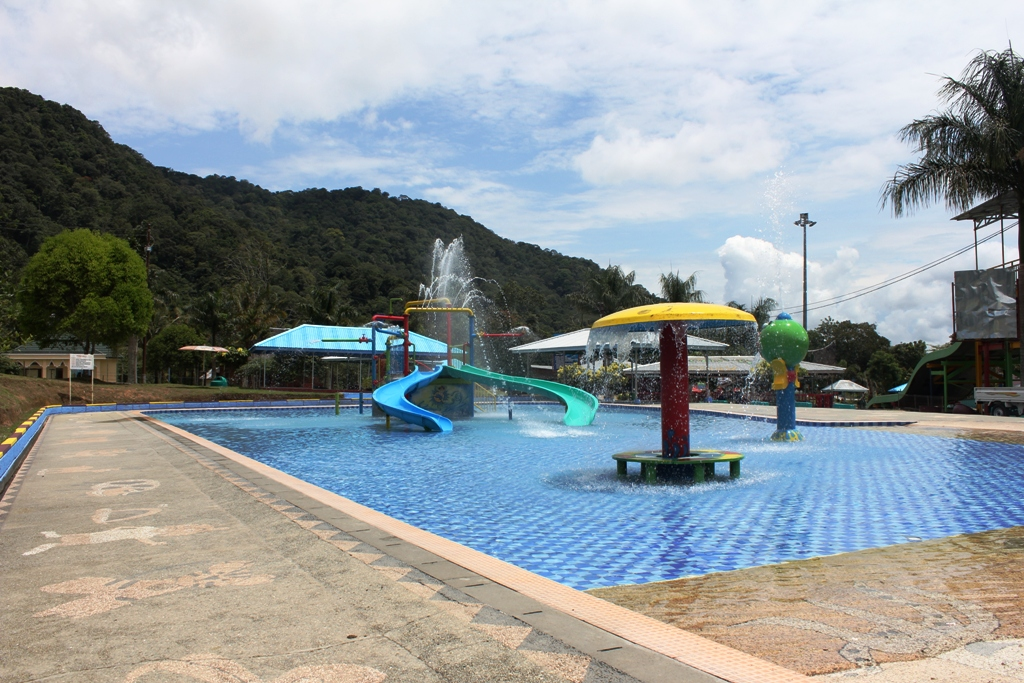 Minang Fantasy water park (Mifan) in the city of Padang Panjang.